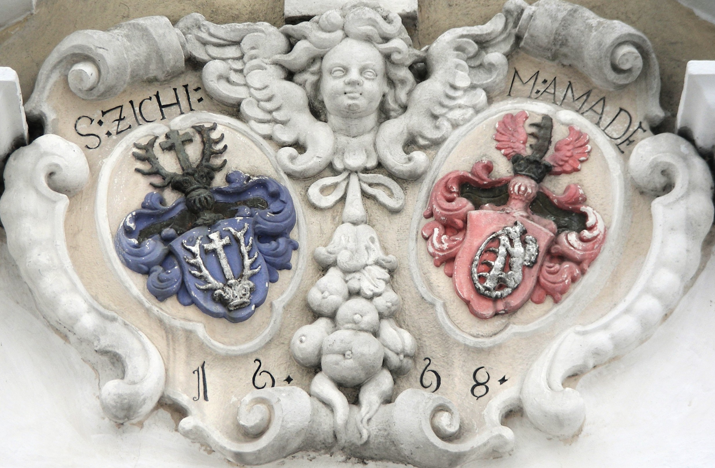 Coat of arms of István Zichy and Magdalena Amade, Church of Mary Magdalene, Rusovce, Bratislava. For coat of arms of Zichy and Siebmacher: Ungarn, p. 733, Tab. 501. For coat of arms of Amade